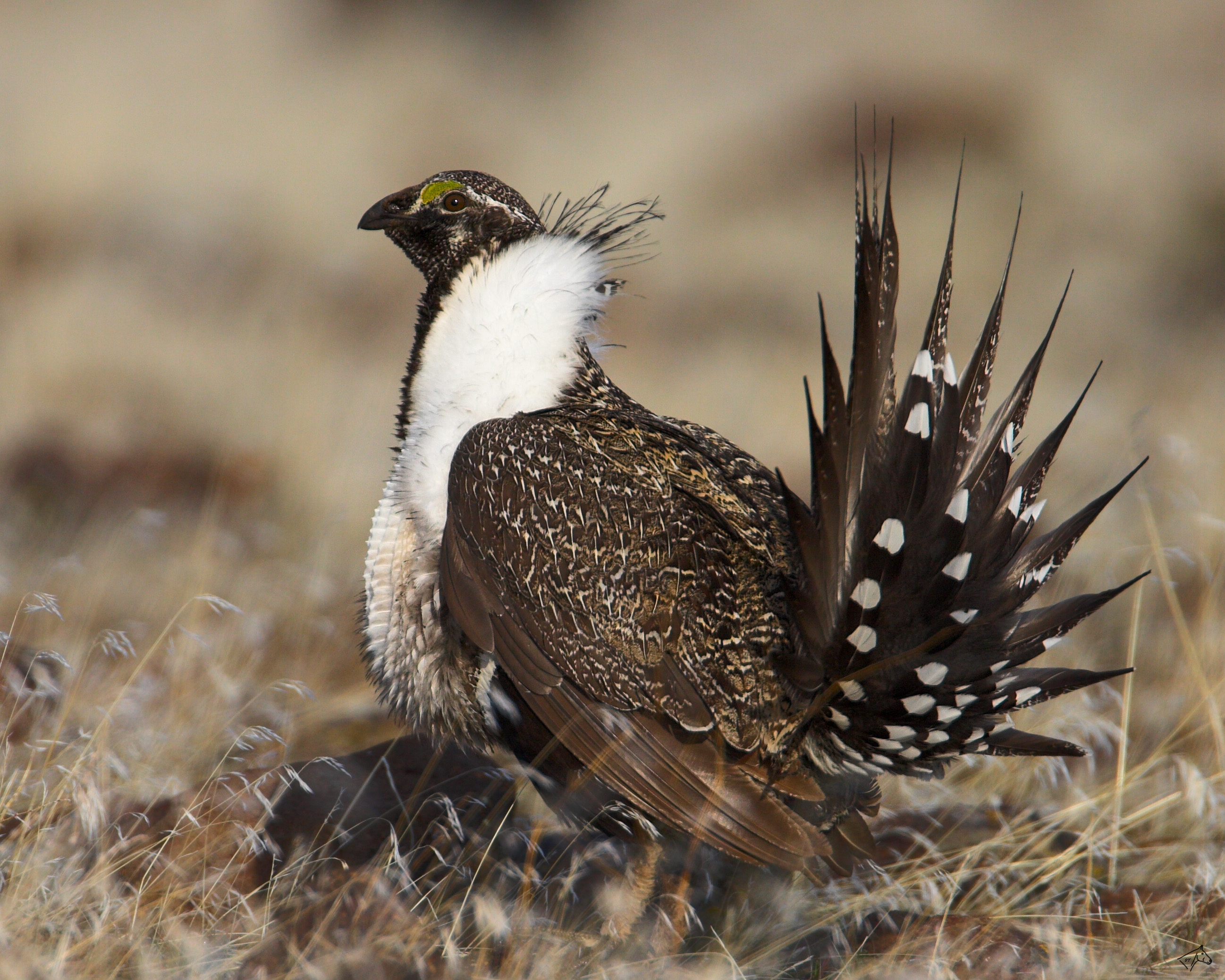 A male Sage Grouse (also known as the Greater Sage Grouse) in USA.